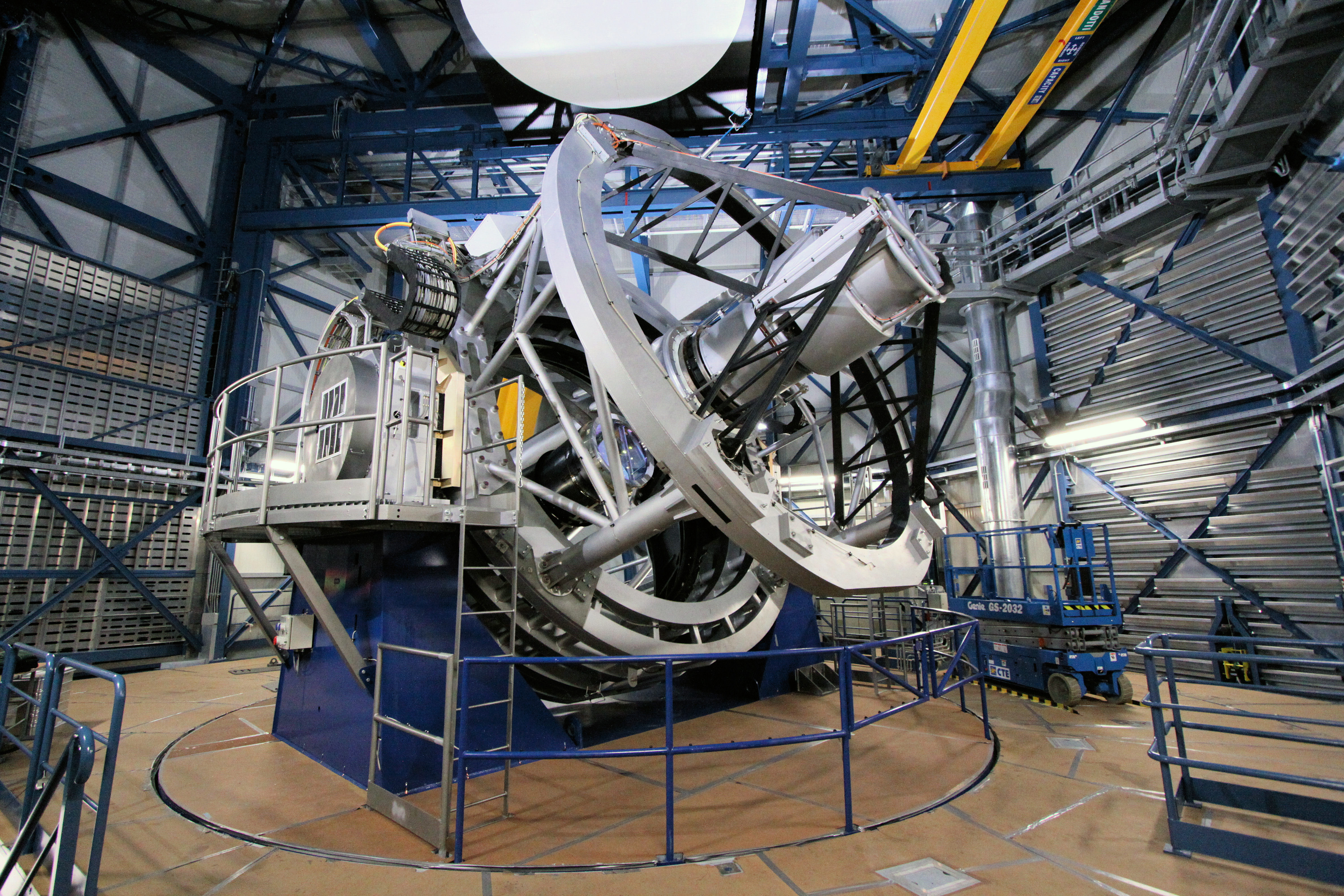 Wide-field image of the VISTA (Visible and Infrared Survey Telescope for Astronomy), with infrared camera installed, in its dome.